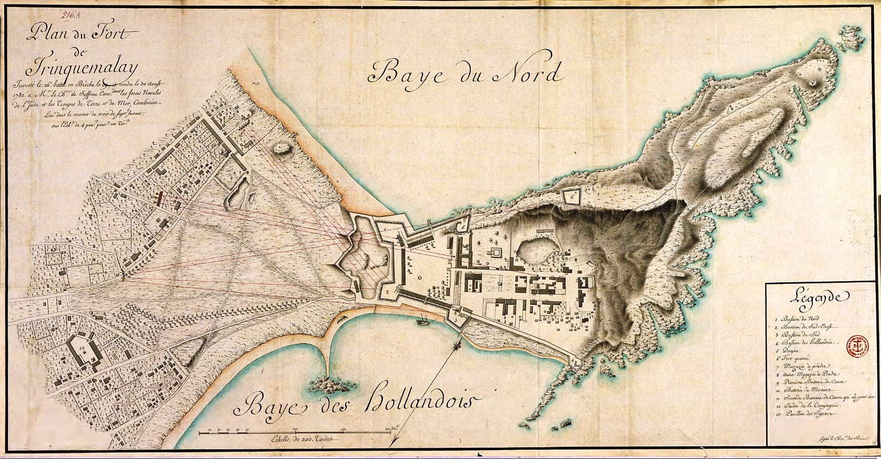 "Plan of Fort Trincomale, made by the Chevalier de Suffren in August 1782" Second card made shortly after the siege by the Knight of the Kings.